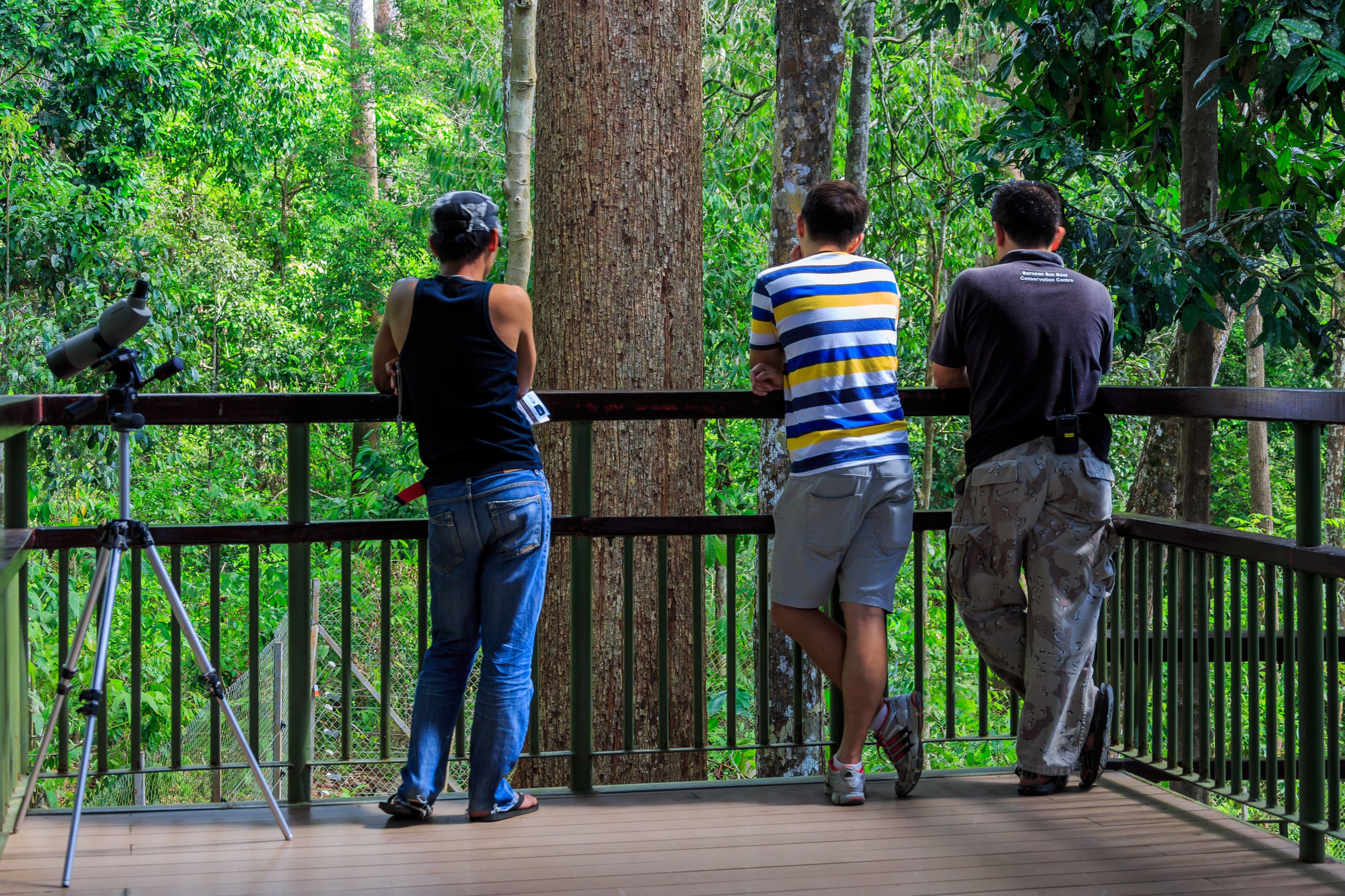 Sepilok, Sabah: Wong Siew Te, Founder and CEO of Bornean Sun Bear Conservation Centre (at the right) during a personal guiding tour on the observation platform of the centre